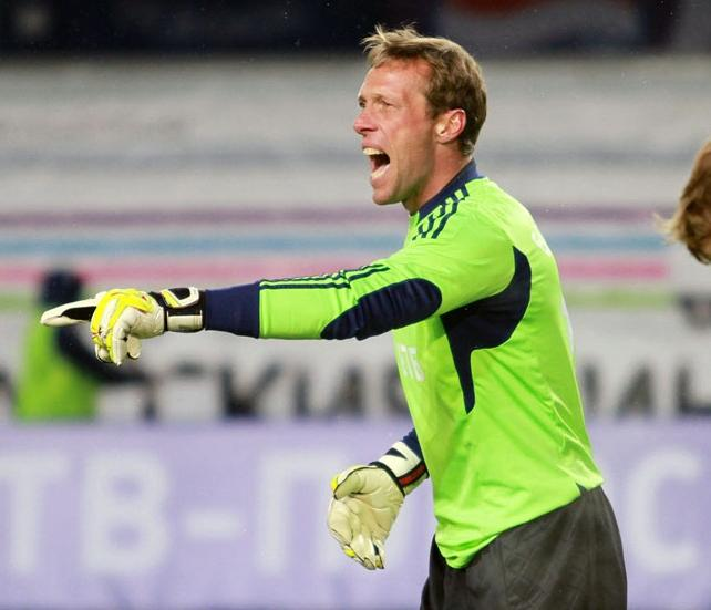 Roman Berezovsky playing for FC Dynamo Moscow in 2012.